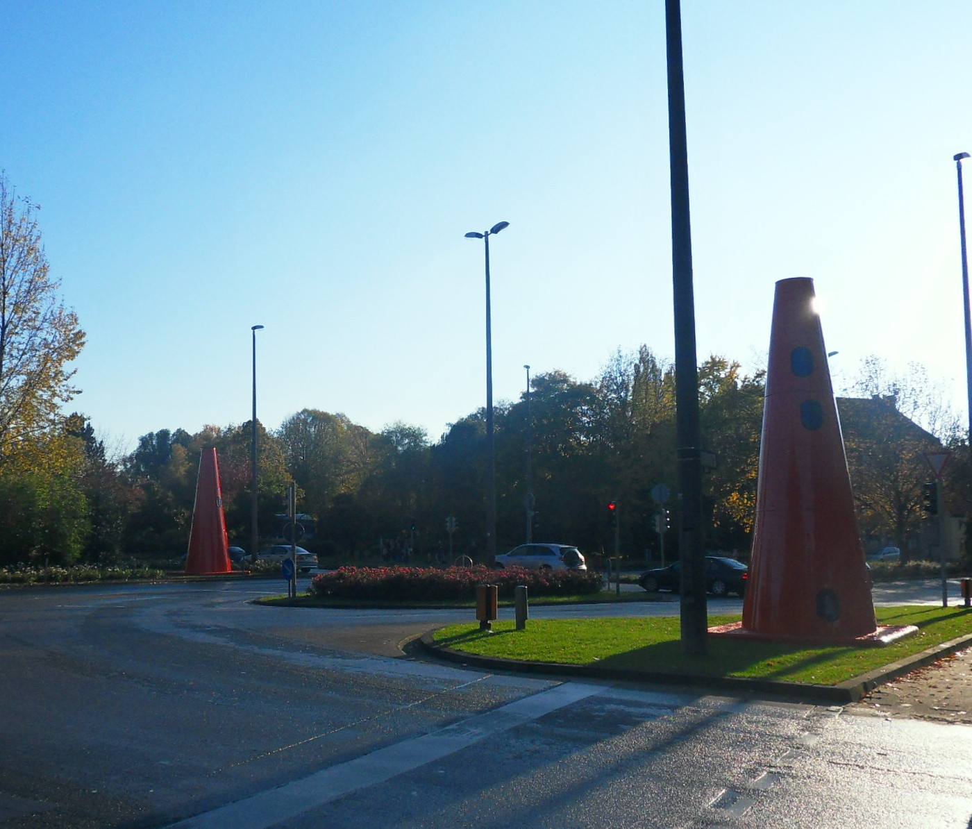 Safety Cones Herford